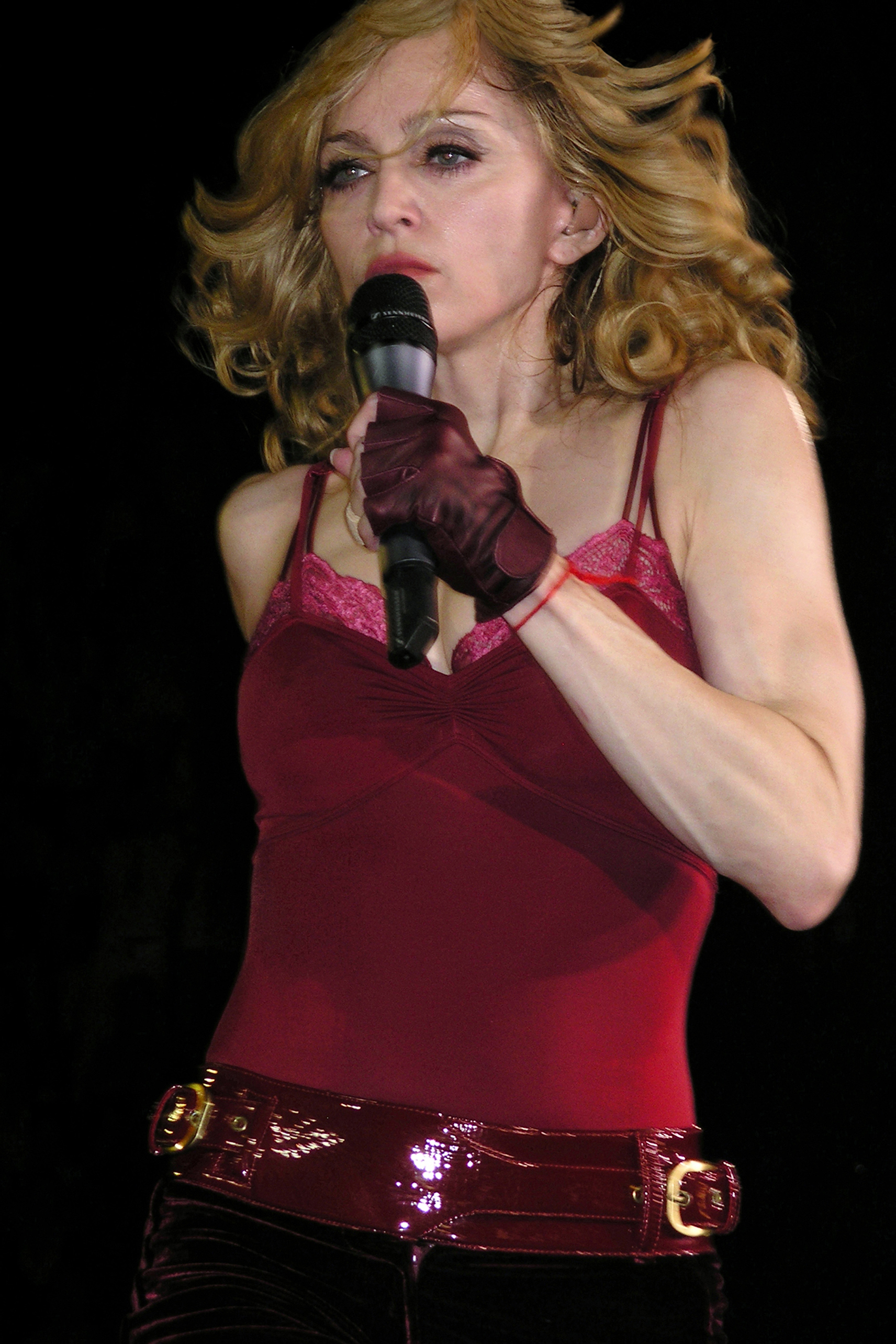 Madonna during her concert in Paris, France, as part of her Confessions Tour on August 31, 2006.